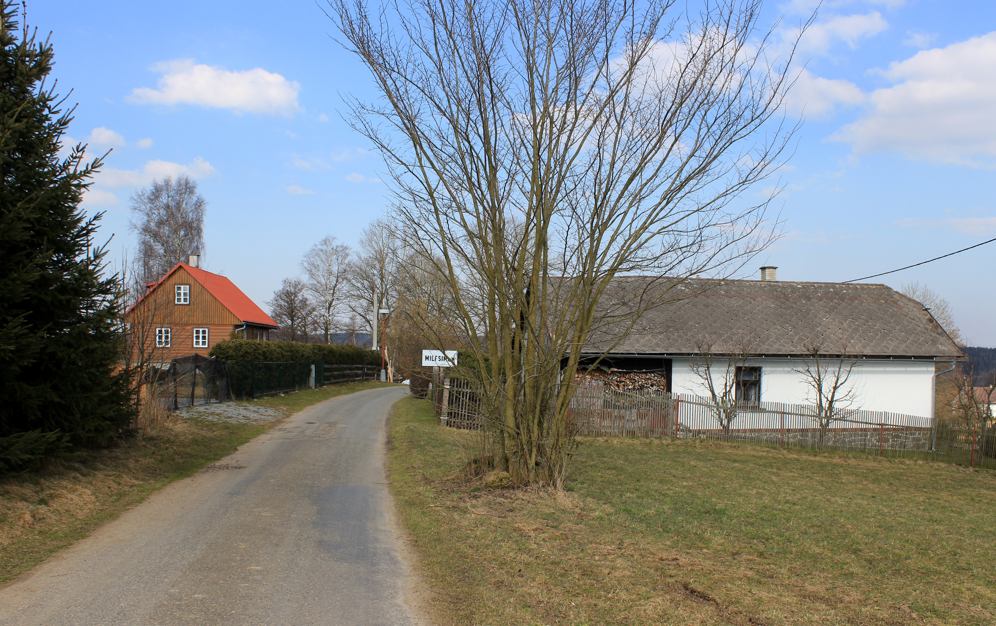 Milesimov, part of Všeradov village, Czech Republic.